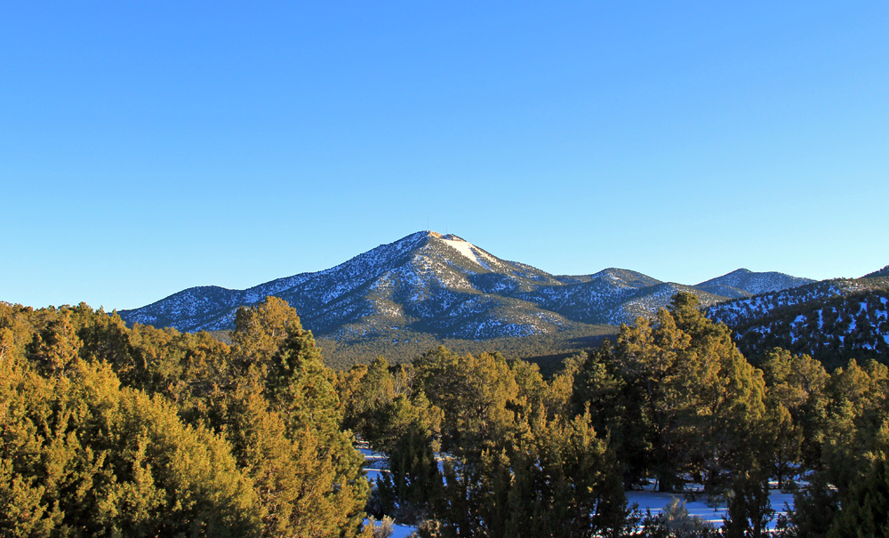 Iron Mountain viewed from the southwest on Desert Mound Road